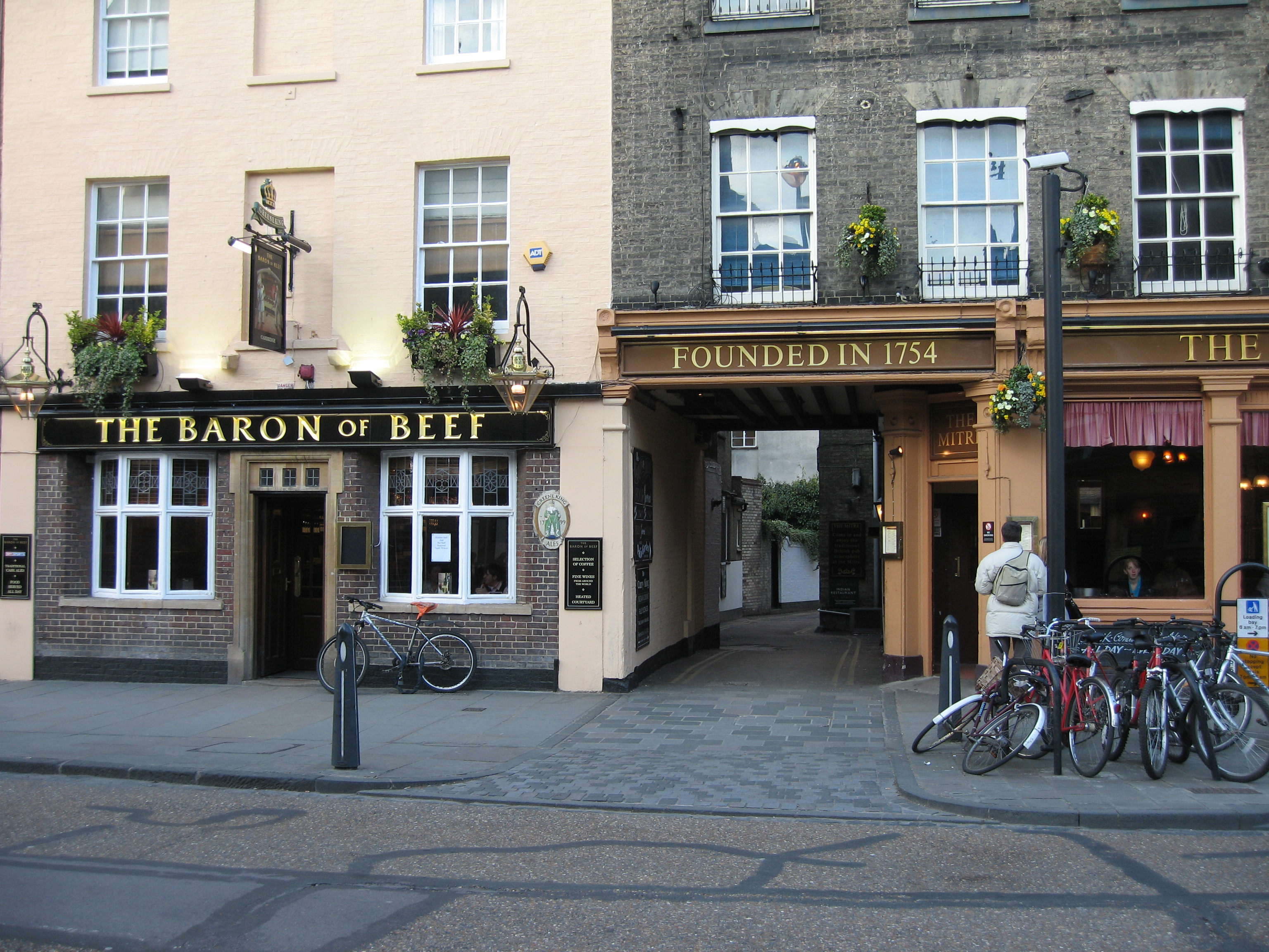 Pubs and shops on Bridge Street, Cambridge